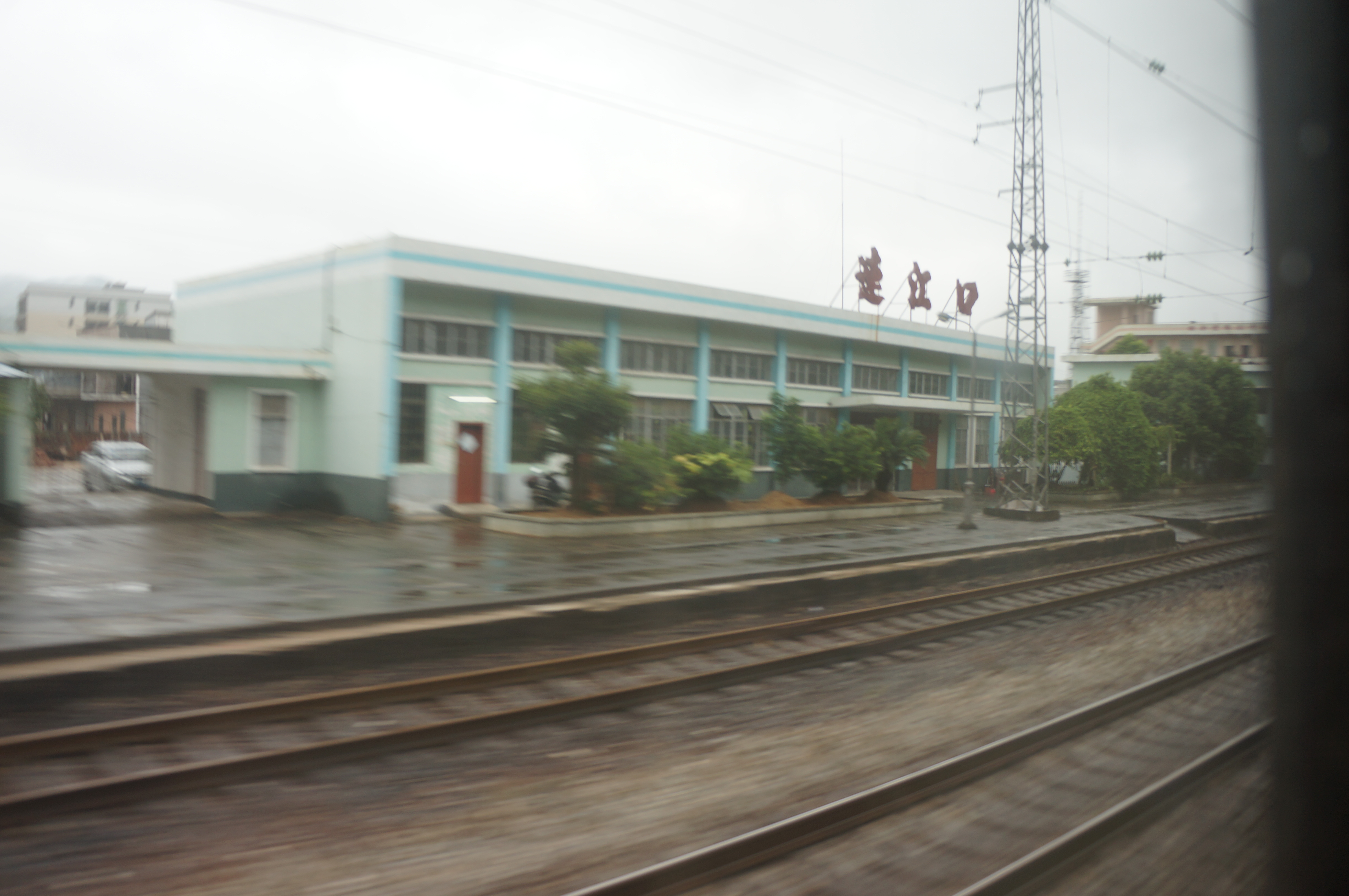 201609 Conductor of Lianjiangkou Station